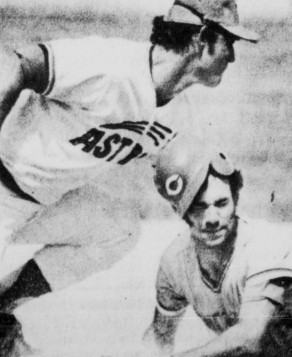 Houston Astros third baseman Doug Rader (left) fails to apply the tag in time to Cincinnati Reds outfielder Tom Spencer (right).